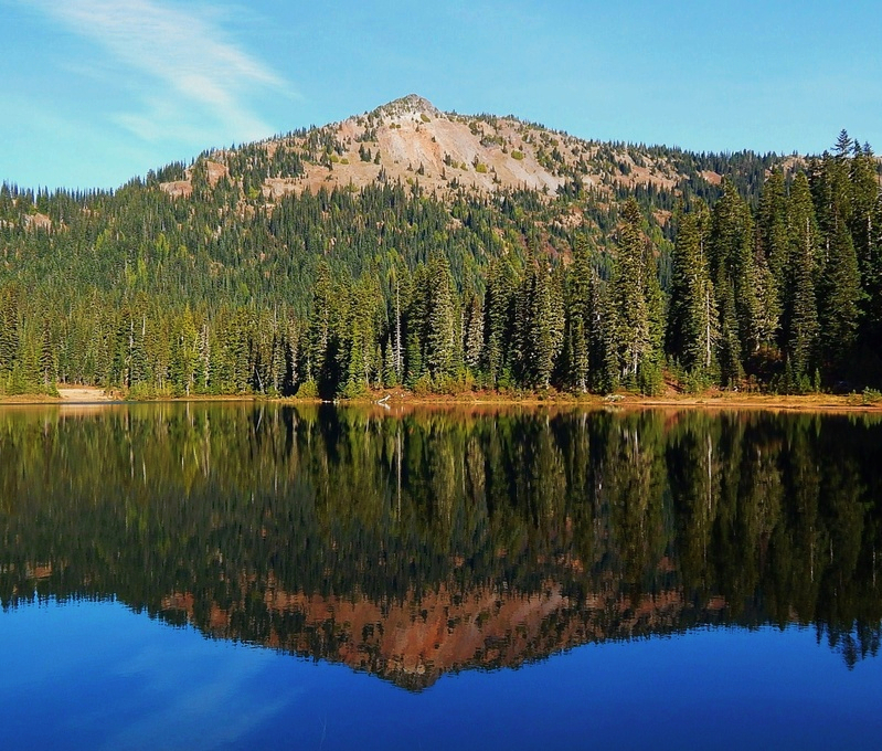 Tahtlum Peak refected in upper Dewey Lake. Cascade Mountains.